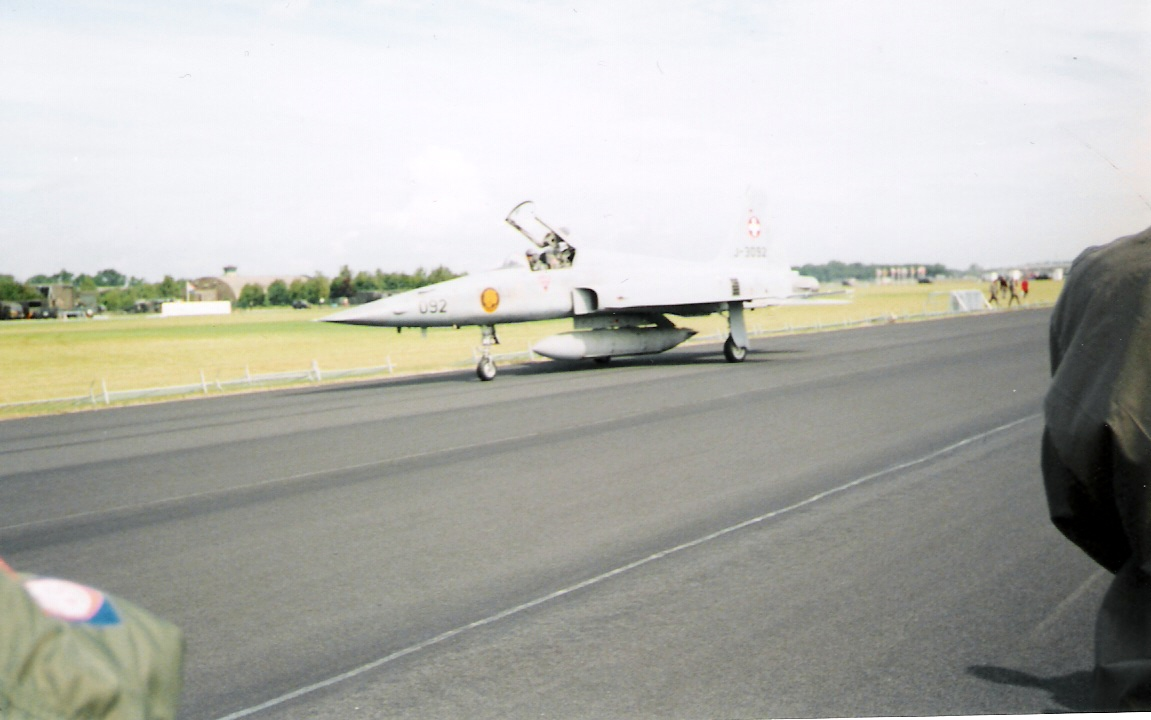 A Swiss Northrop F-5E Tiger II at an air show in the Netherlands, 1997.